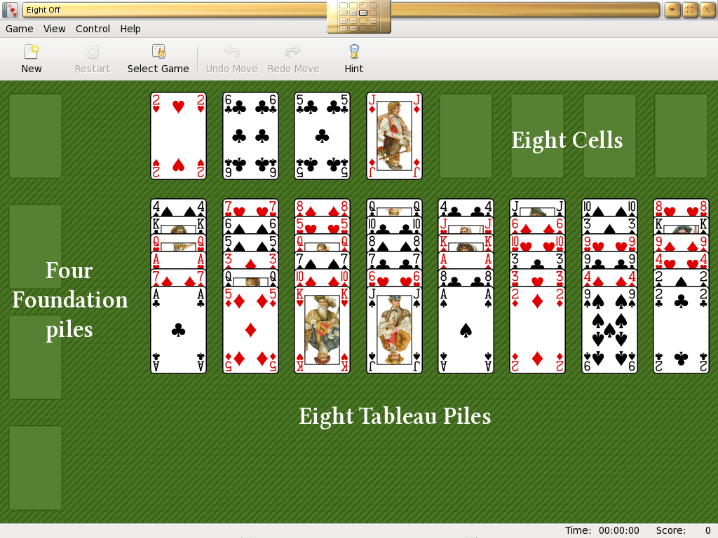 A screenshot of the initial layout of the Patience game "Eight Off", taken from Aisleriot Solitaire in the GNOME games pack